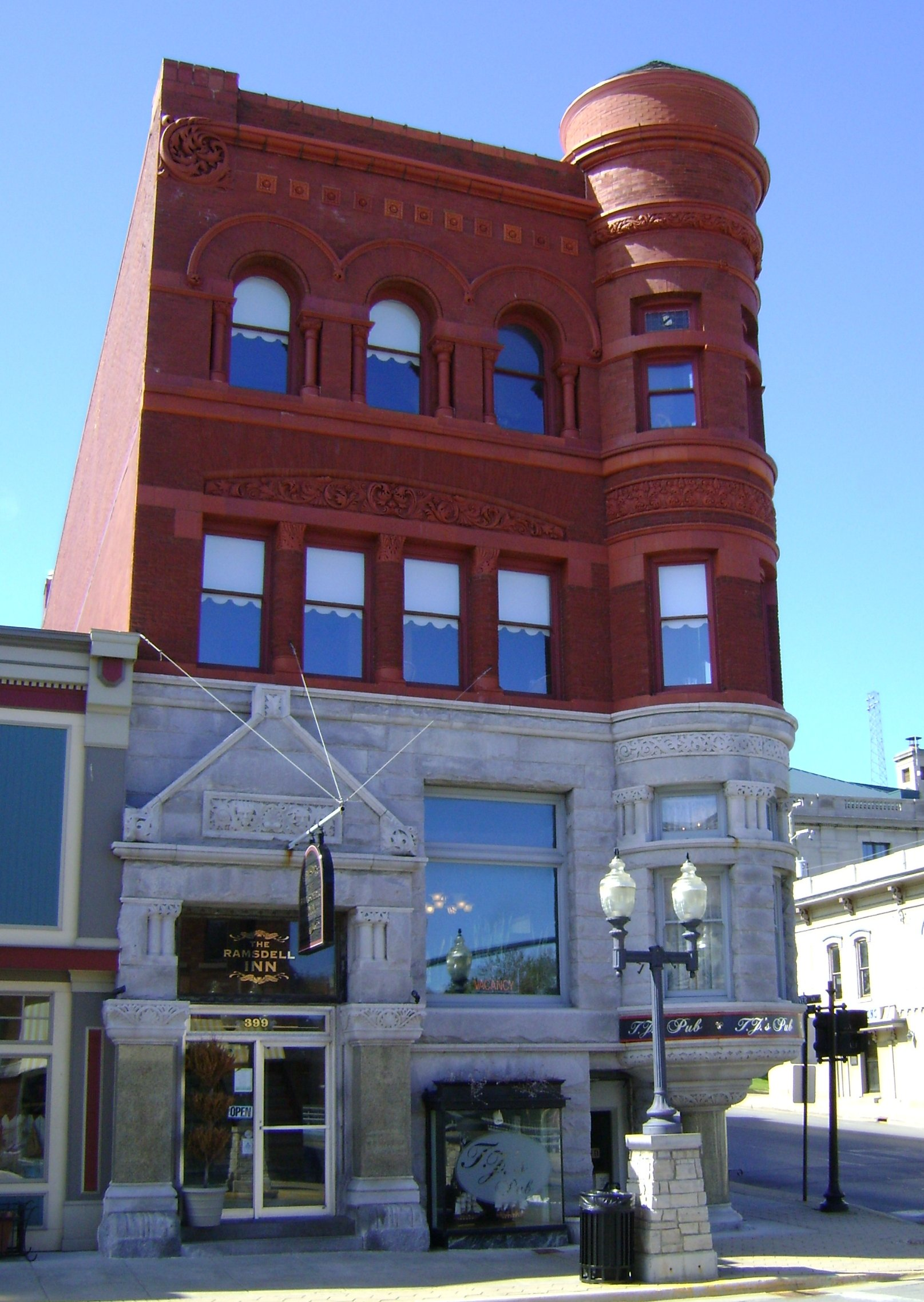 Ramsdell building at River and Maple Streets in Manistee, Michigan